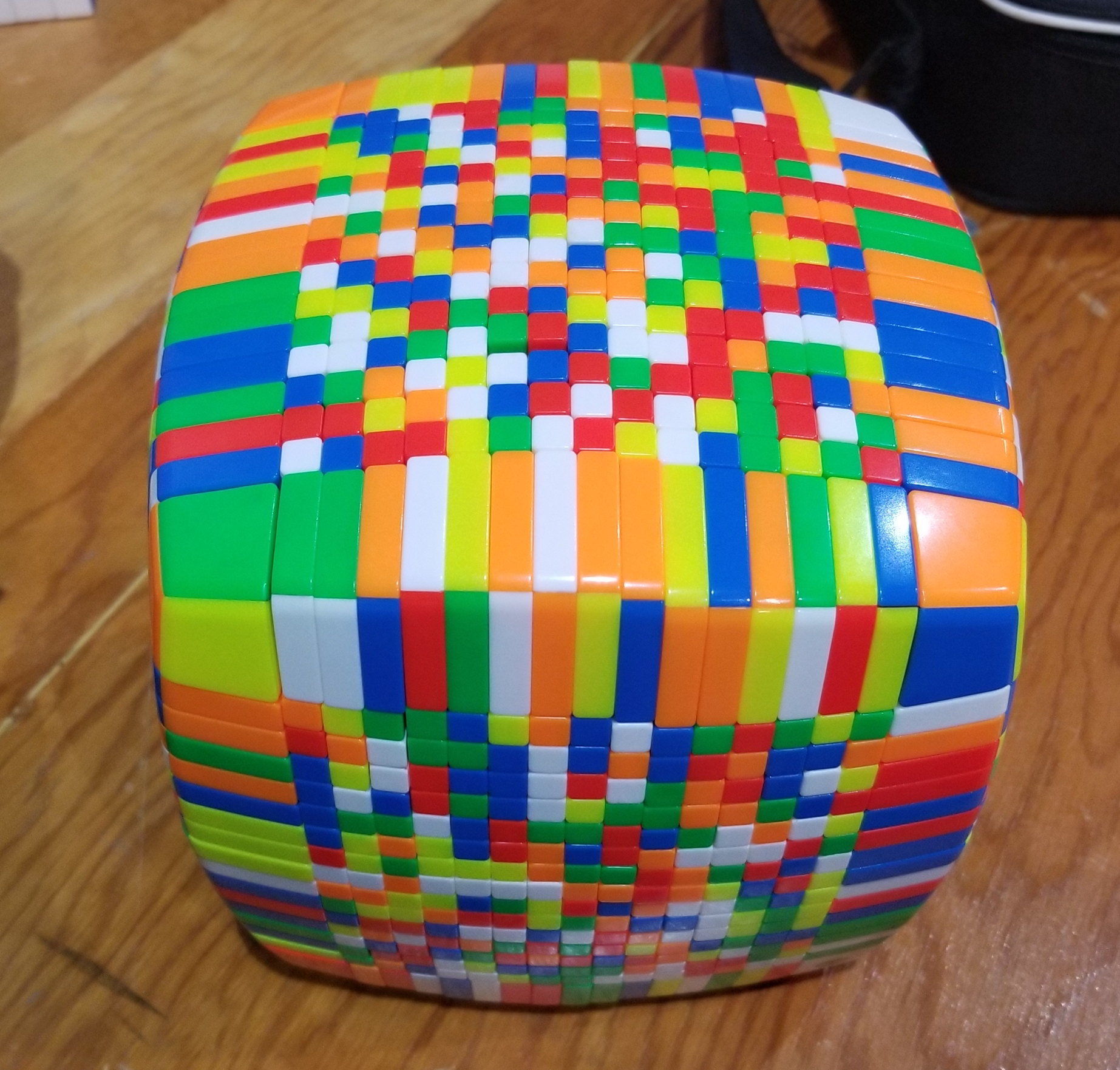 A 17-layer version of Rubik's Cube made by YuXin